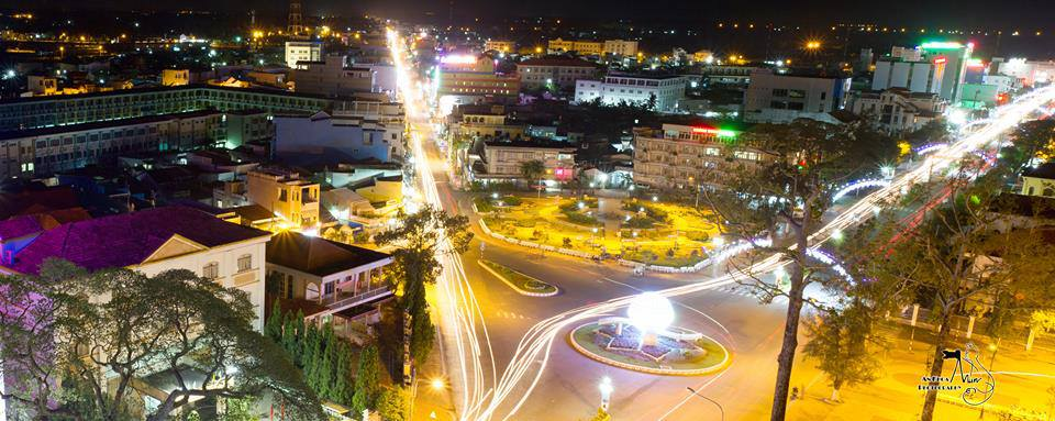 Soc Trang city skyline.